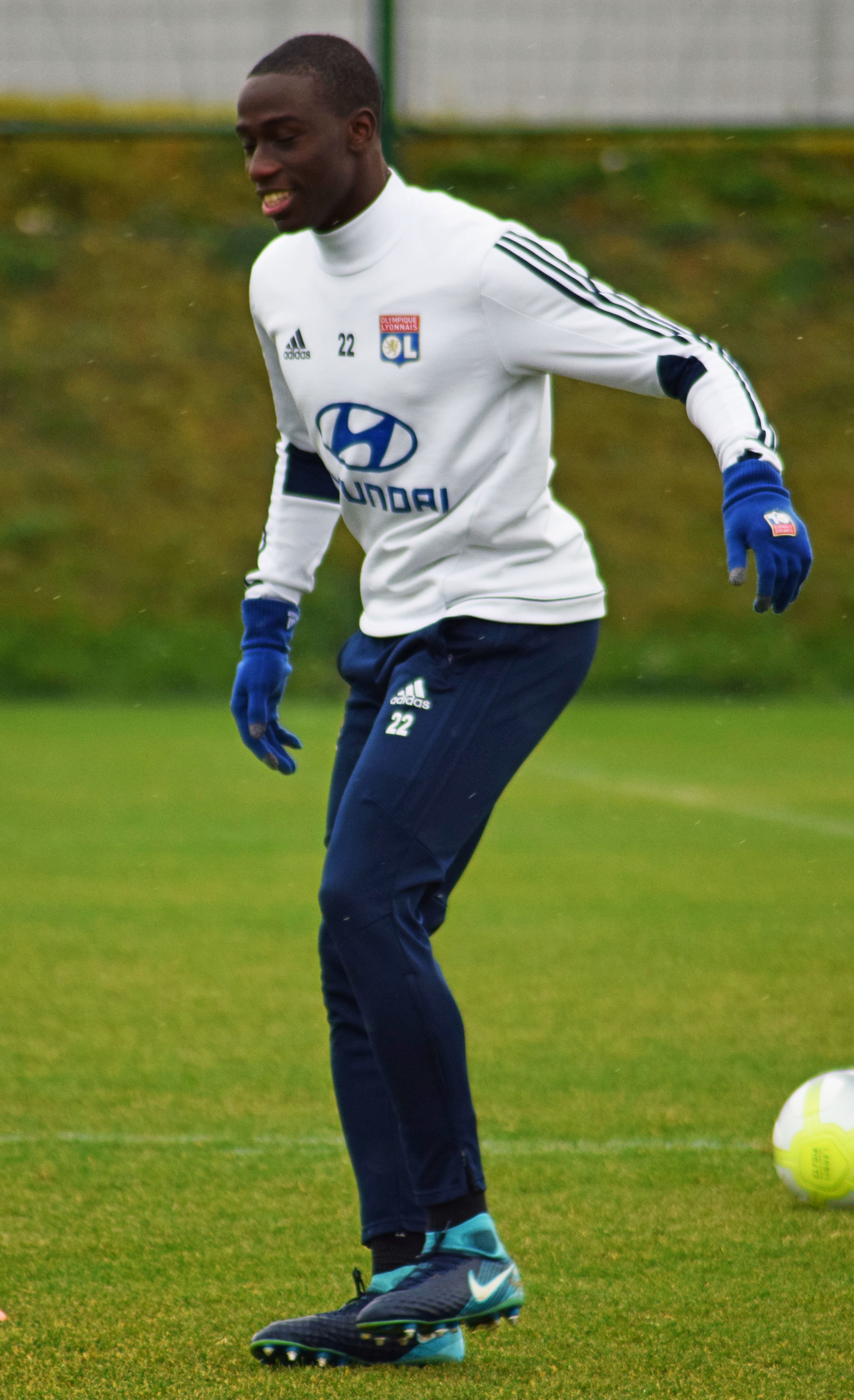 Ferland Mendy in training with Olympique Lyon in 2017.